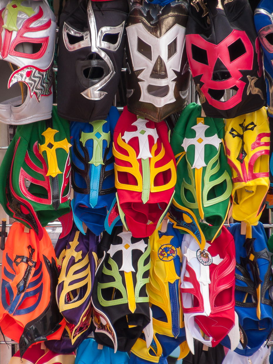 Mexican wrestling masks at the Tanque Verde Swap Meet, Tucson.